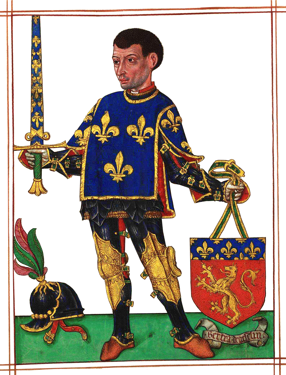 Bertrand du Guesclin